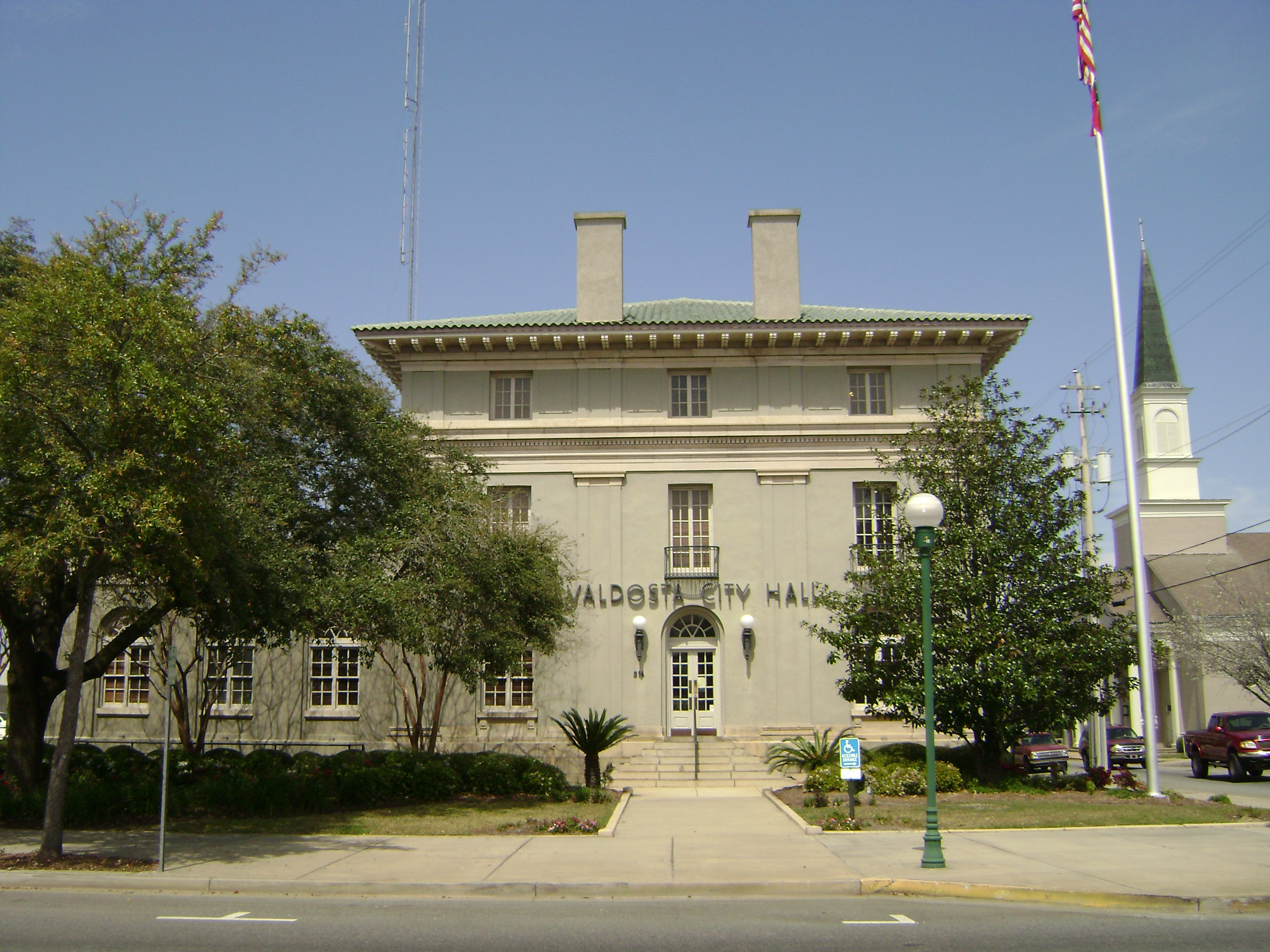 City Hall in Valdosta, Lowndes County, Georgia